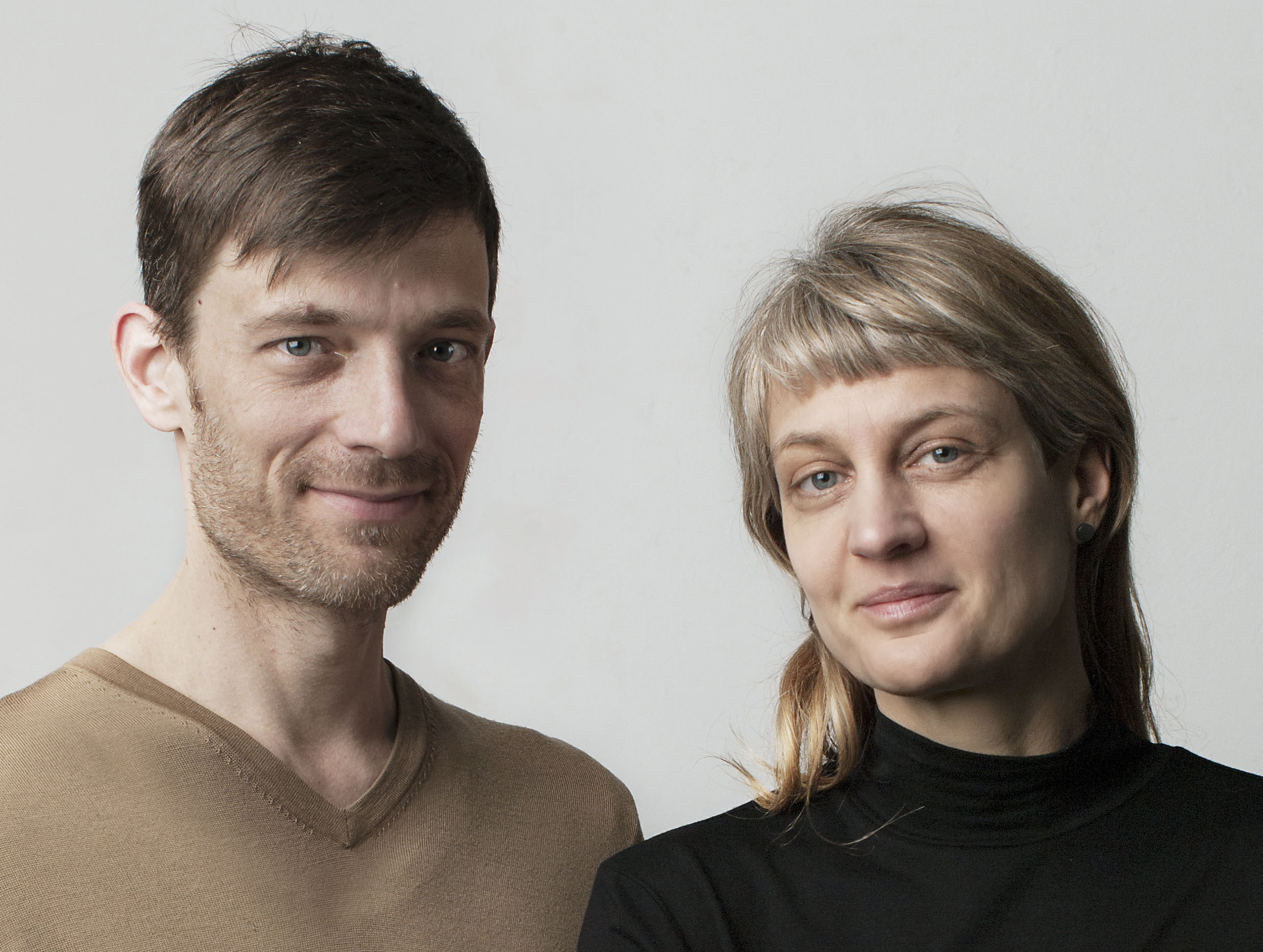 A portrait of the artists Thomas & Renée Rapedius